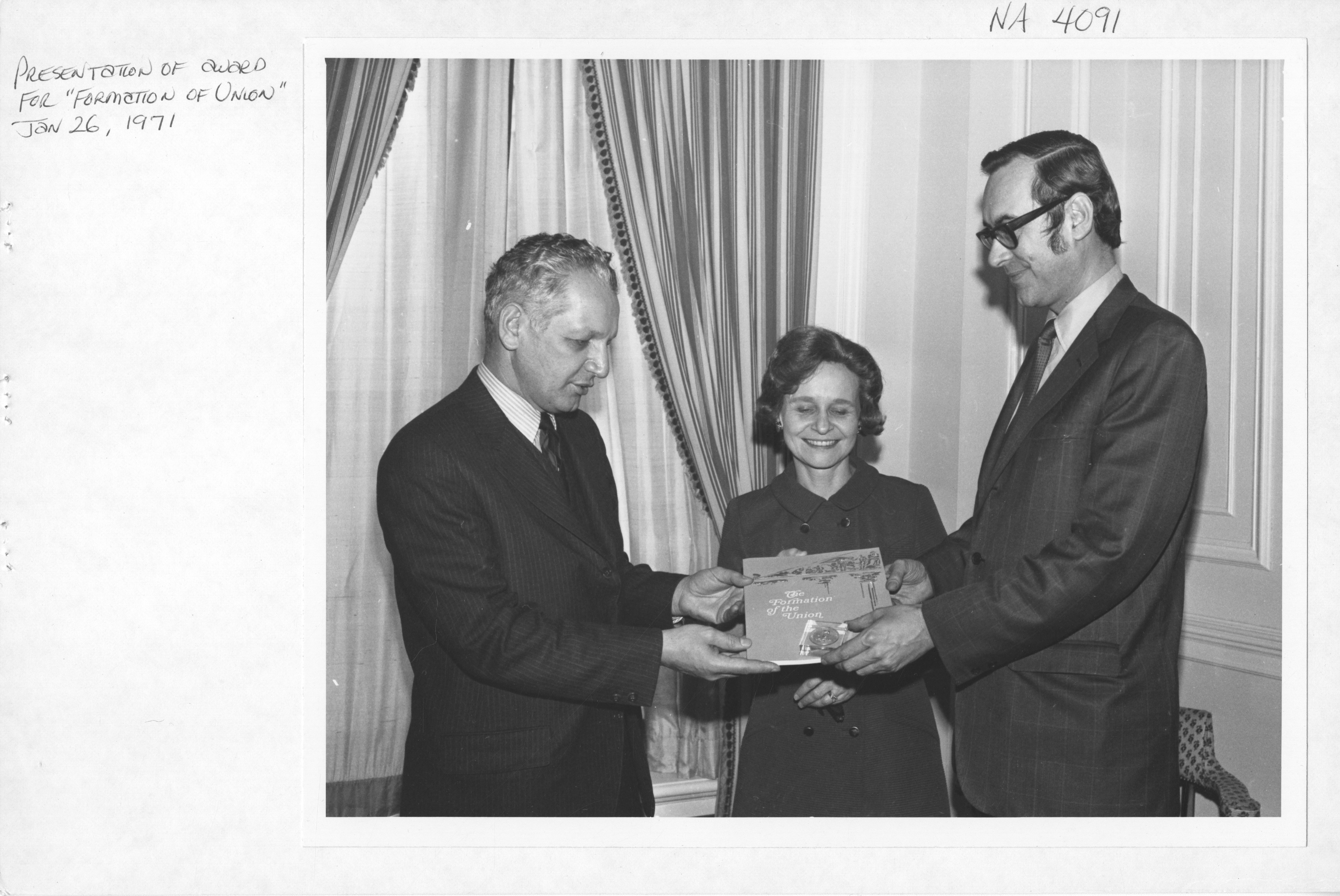 James B. Rhoads, Archivist of the United States (right), holding an award for the Formation of the Union catalog with Steven Tutellian, regional sales manager for the Edward Stern Majestic Press of Philadelphia, and Virginia C. Purdy, Educational Programs